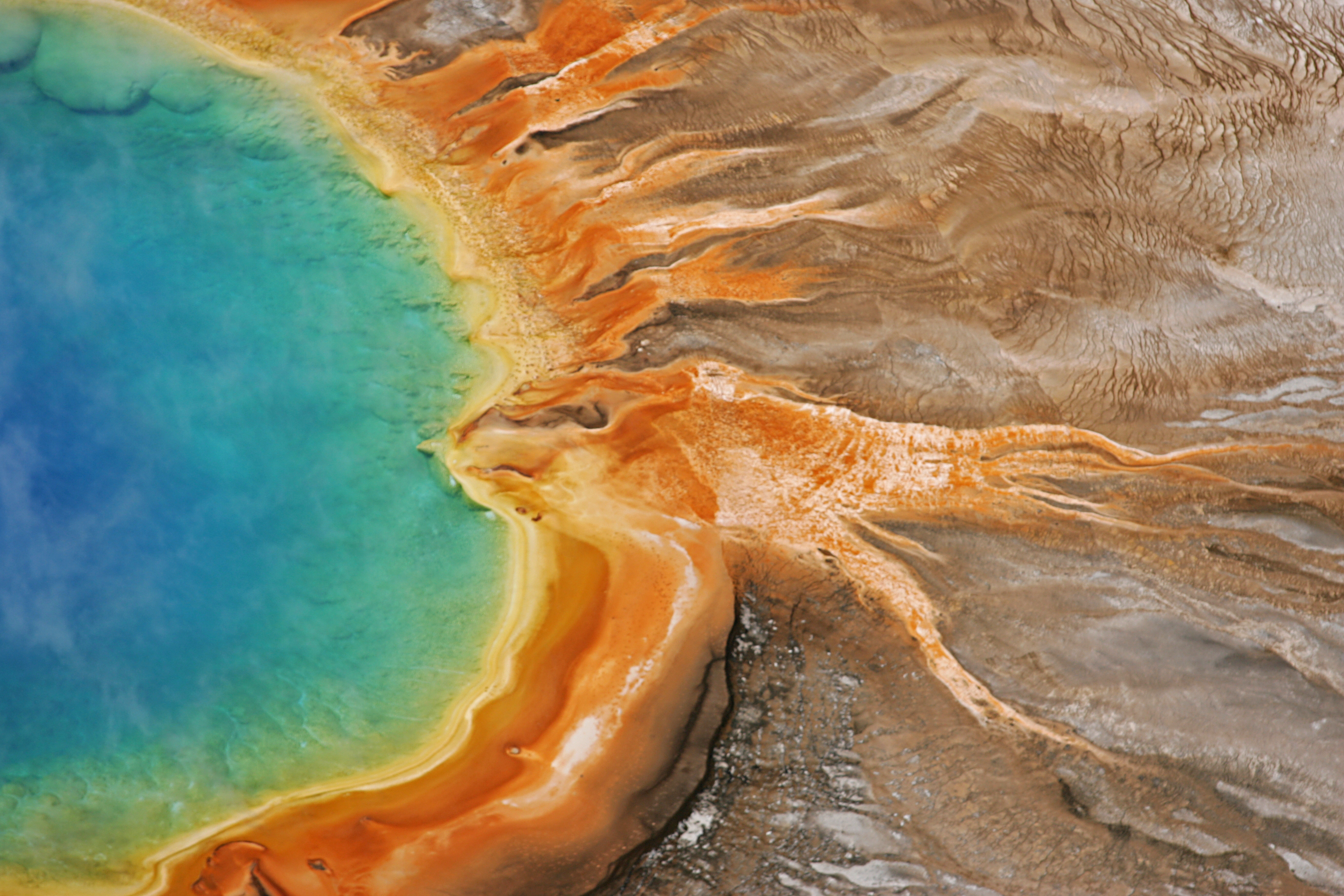 Grand Prismatic Spring; Jim Peaco; June 22, 2006; Catalog #20374d; Original #IT8M4098